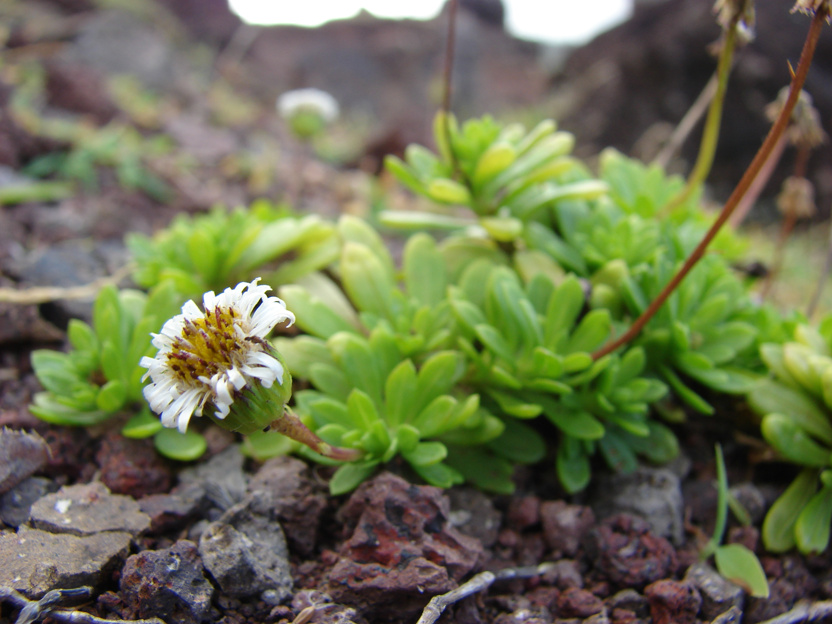 Tetramolopium sylvae (flowering habit). Location: Maui, Akaluaiki West Maui